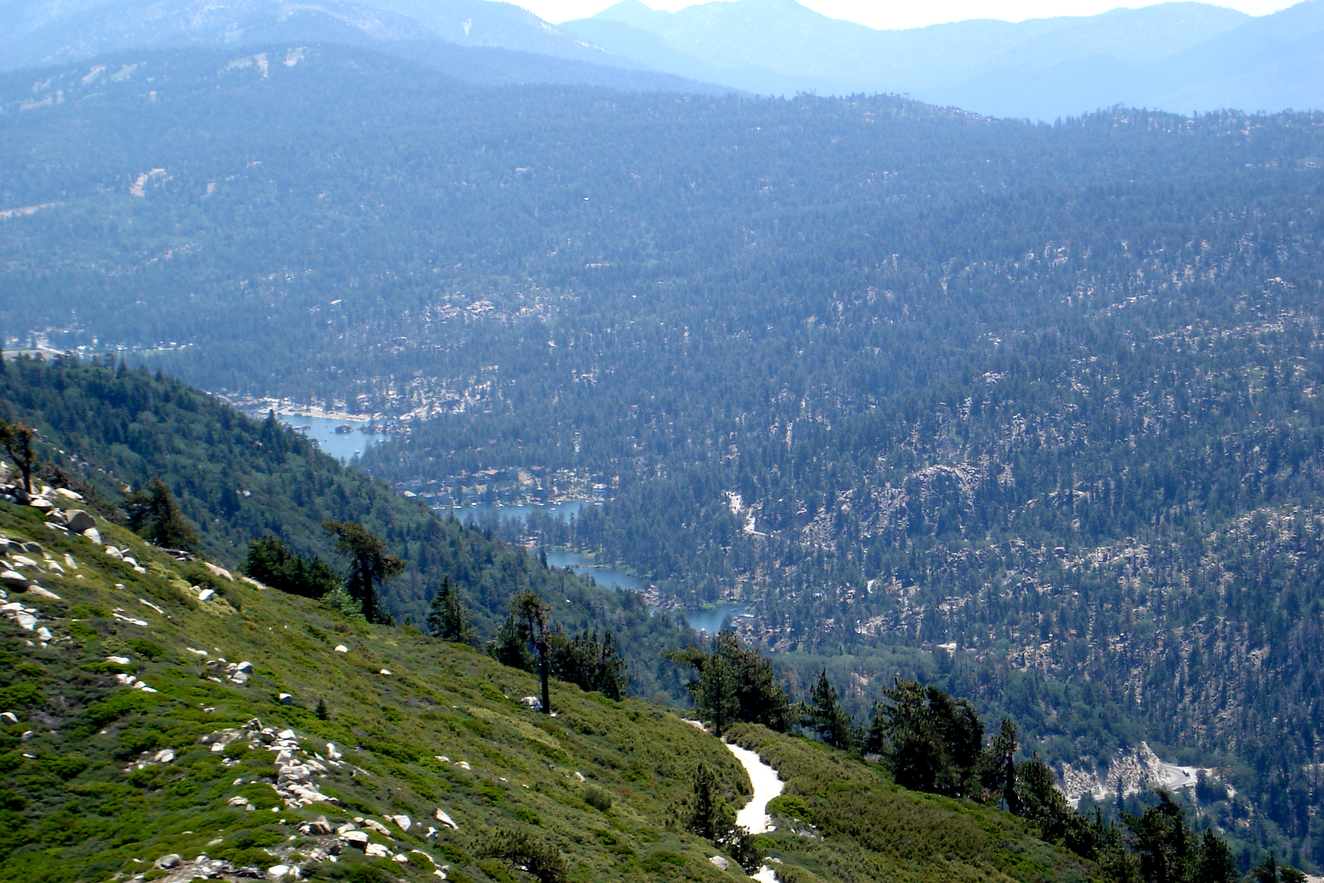 Looking east from Butler Peak lookout tower. San Bernardino National Forest